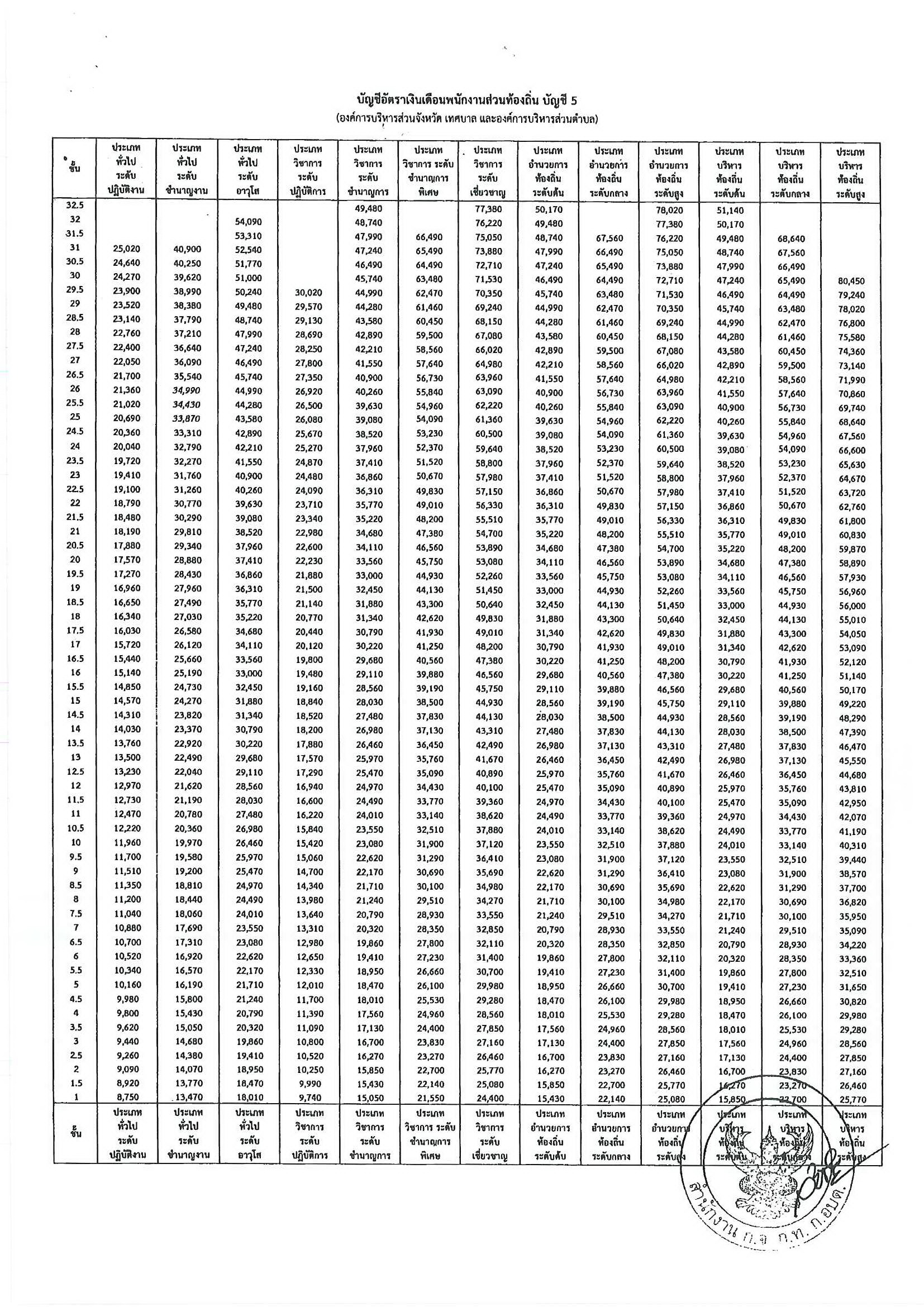 บัญชี 5 ท้องถิ่น